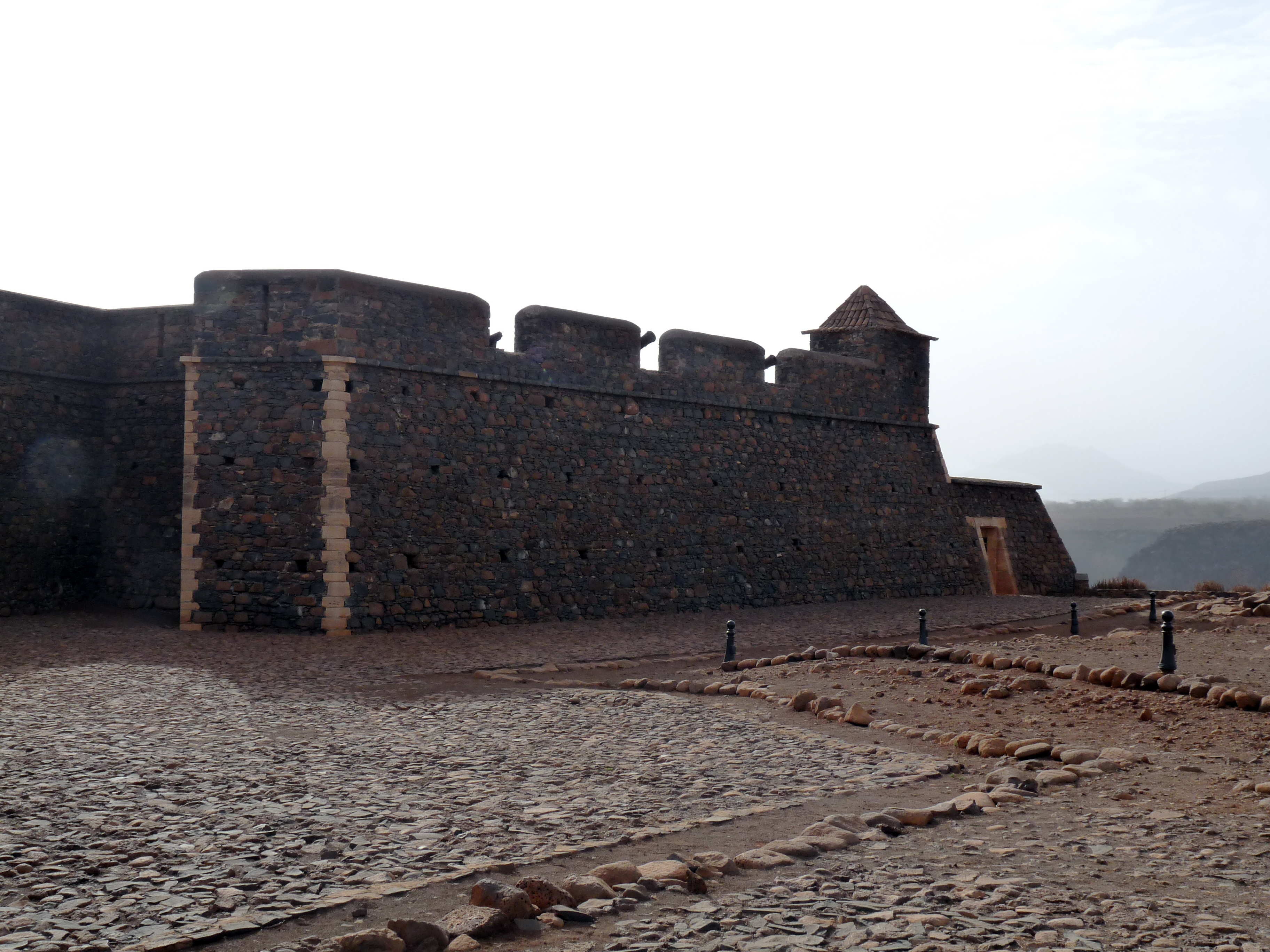 São Filipe Fortress in Cidade Velha, Cabo Verde